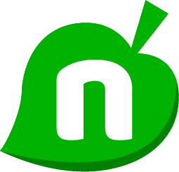 Logo of Nookazon.